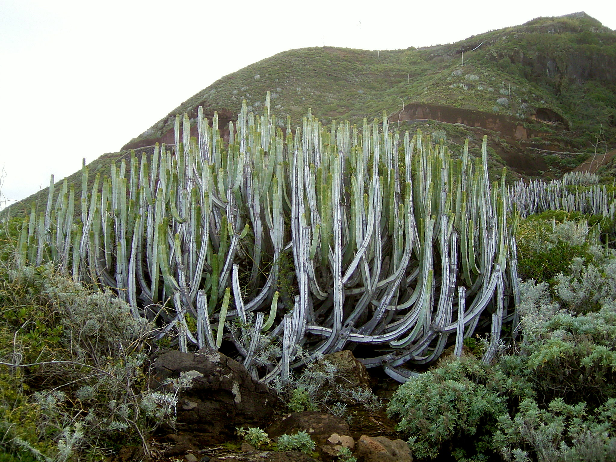 Euphorbia canariensis growing in La Fajana, Barlovento, La Palma, Canary Islands